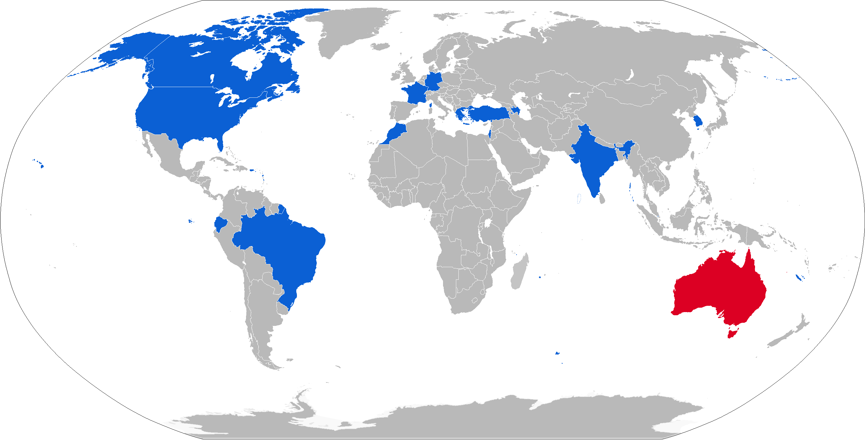 Map with military IAI Heron UAV operators in blue, with former operators in red and law enforcement operators in light blue